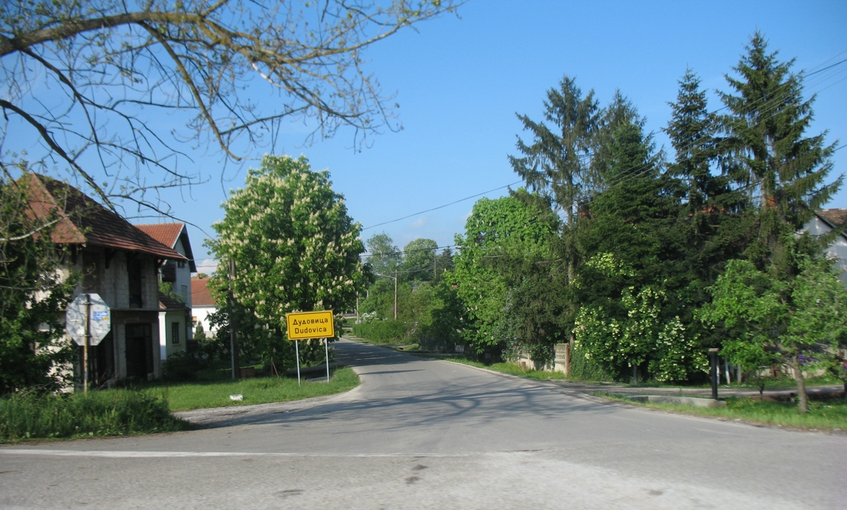 Entrance to Dudovica in Lazarevac Municipality,near Belgrade,viewed from Ibarska magistrala.